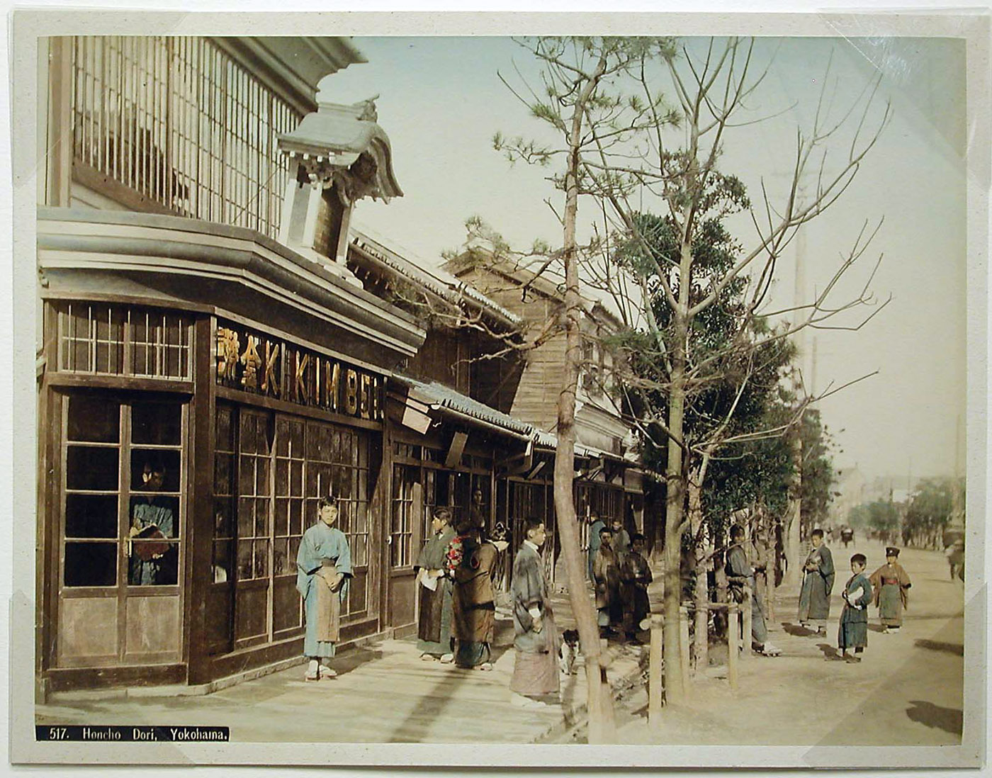 the studio of Kusakabe Kimbei